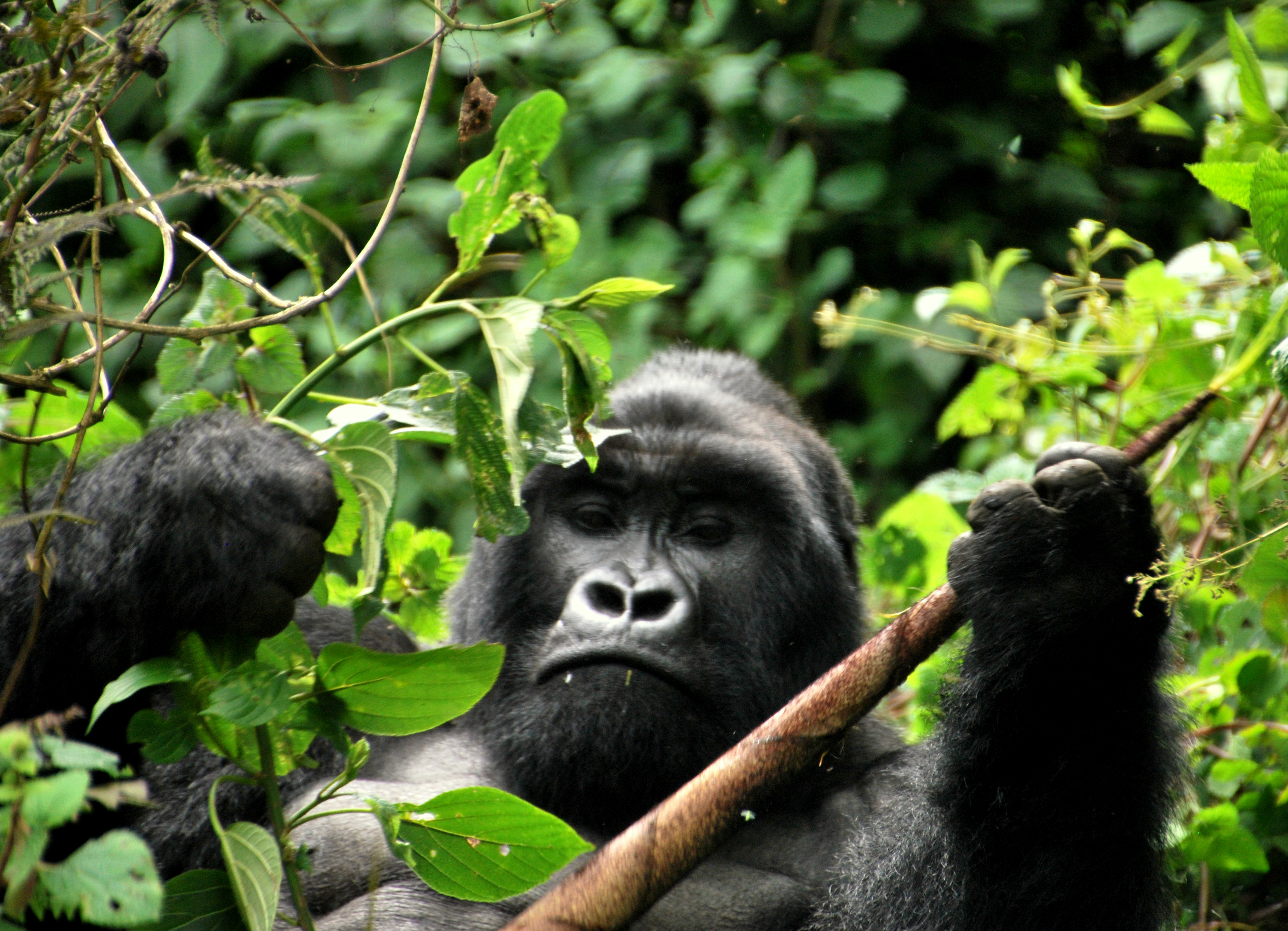 Mountain gorilla of the Sabyinyo group, Volcanoes National Park, Rwanda.